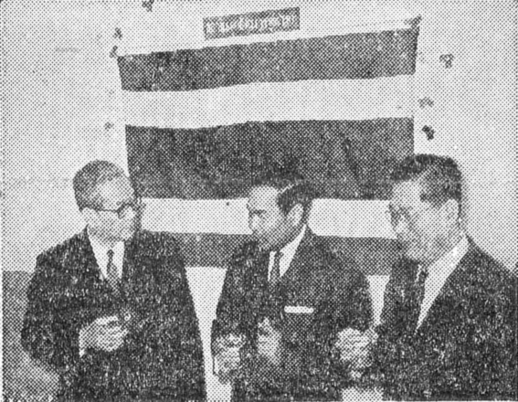 Opening ceremony of the Thai Embassy in Seoul